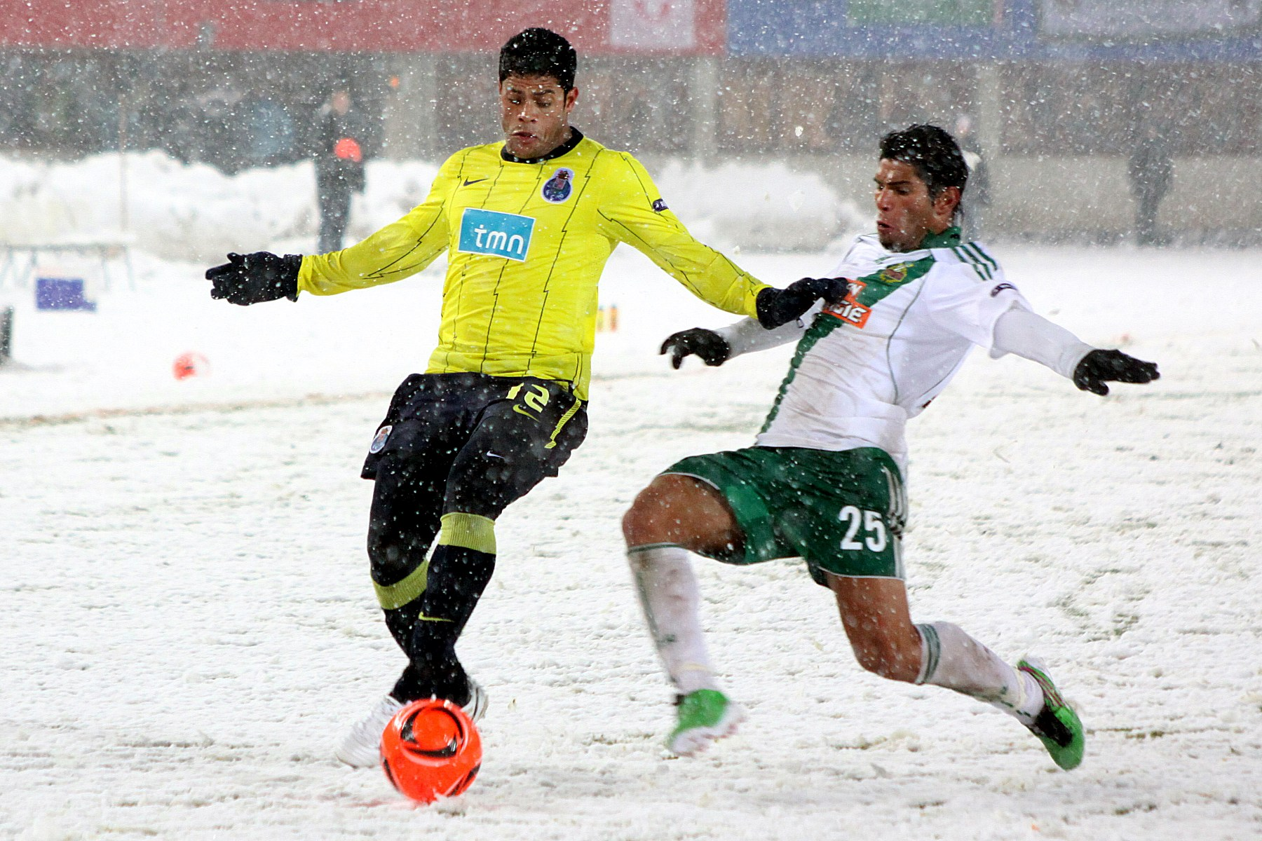 2010–11 UEFA Europa League - SK Rapid Wien vs. F.C. Porto 1:3, Ernst-Happel-Stadion (Vienna) – Hulk (left) in the duel with Tanju Kayhan.